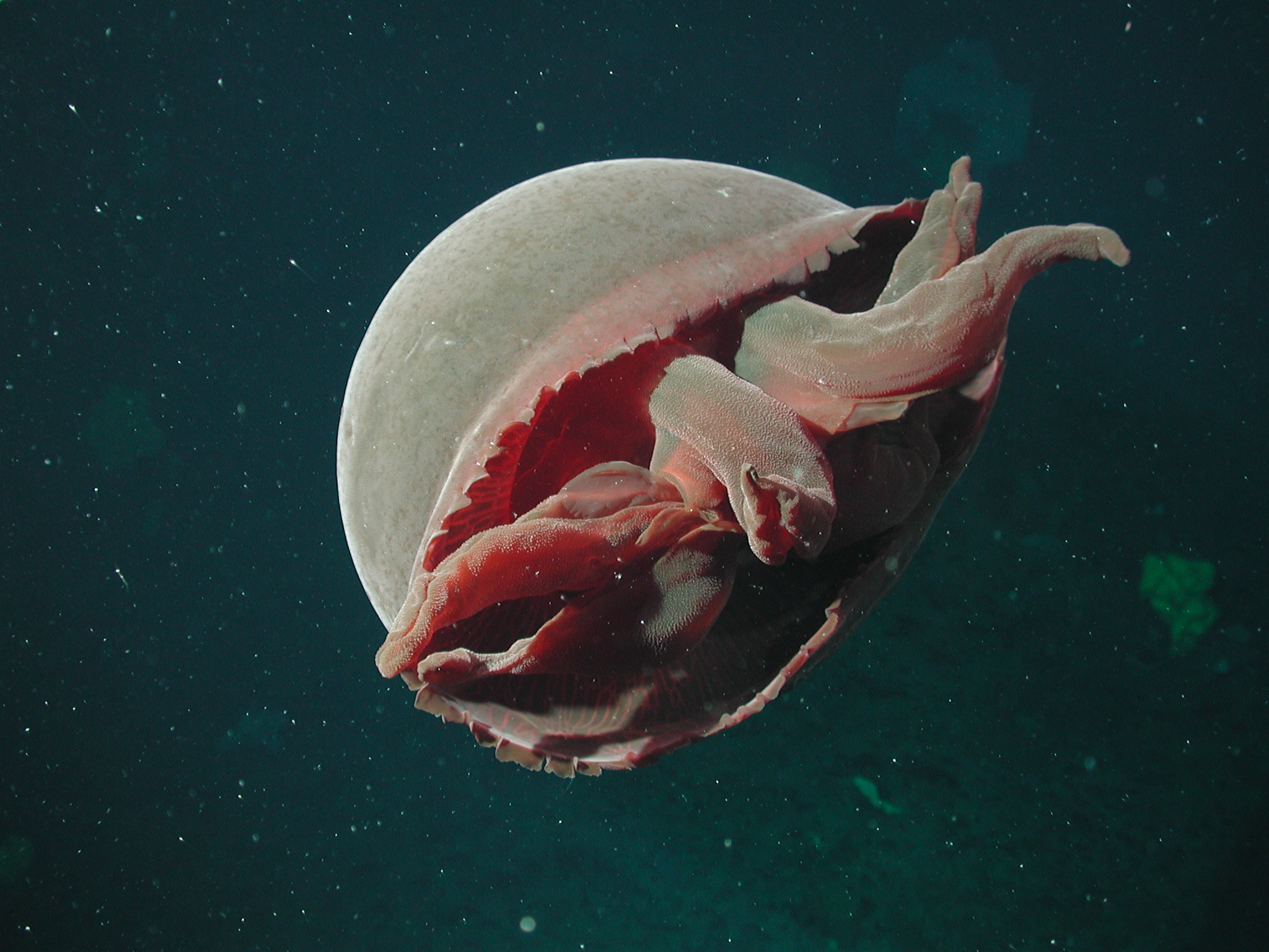 Jellyfish (Tiburonia granrojo) - a new species described by MBARI and JAMSTEC researchers. This species grows up to 1 meter in diameter. California, Davidson Seamount.